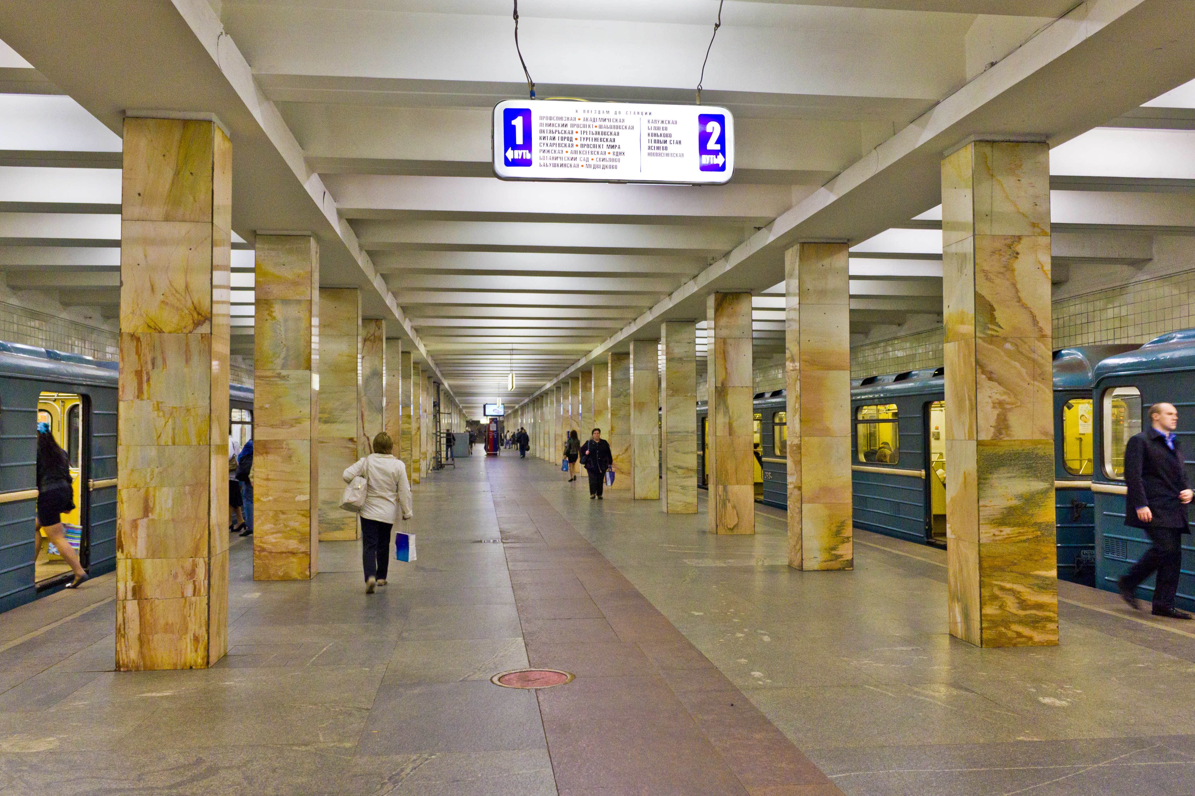 Noviye Cheryomushki Moscow Metro station.